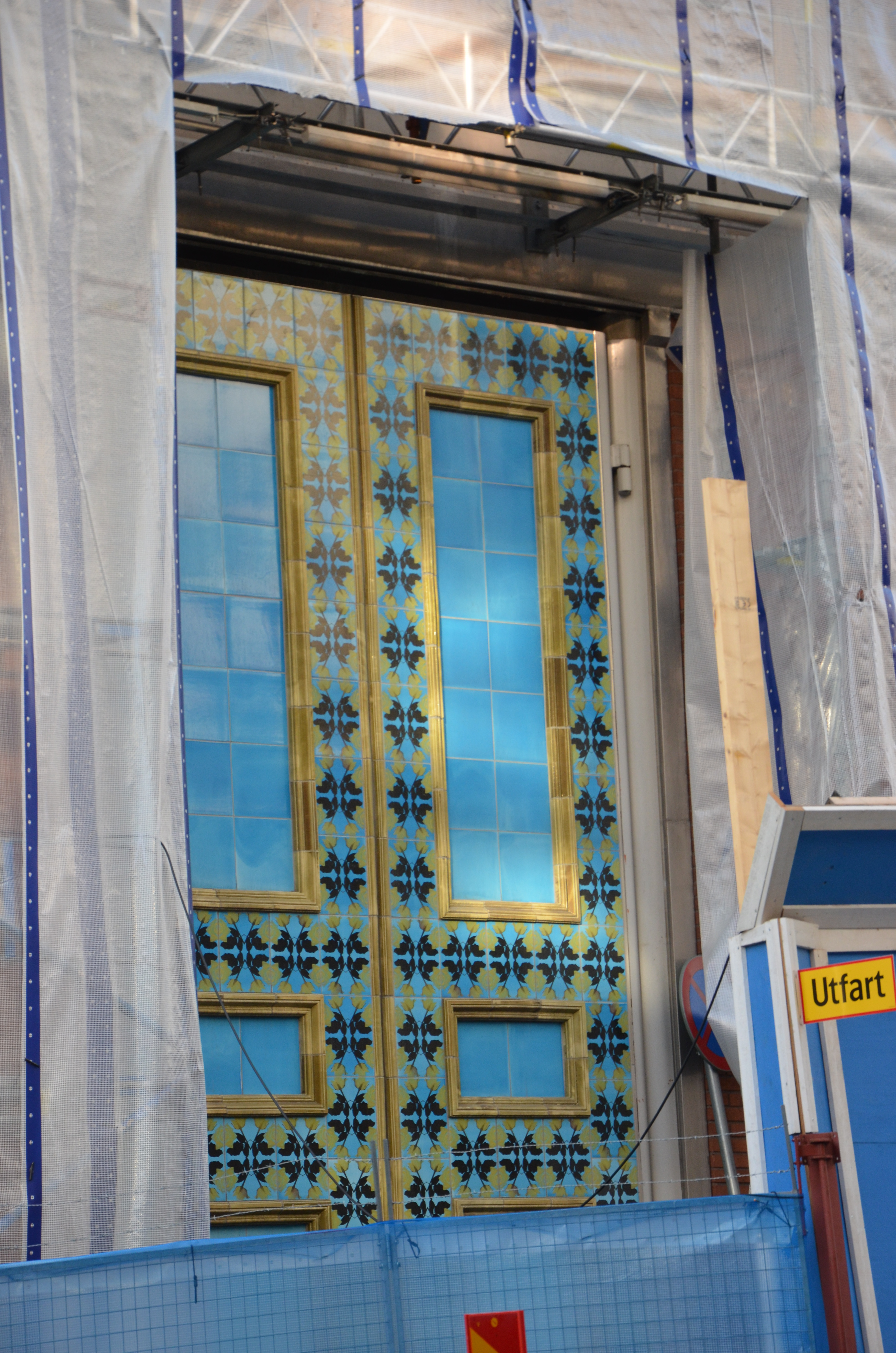 Germund Lindungers Välkommen, Mäster Samuelsgatan, med fastigheten under ombyggnad oktober 2012